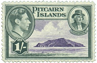 Postage stamp, UK - Pitcairn Island, 1940: Fletcher Christian.